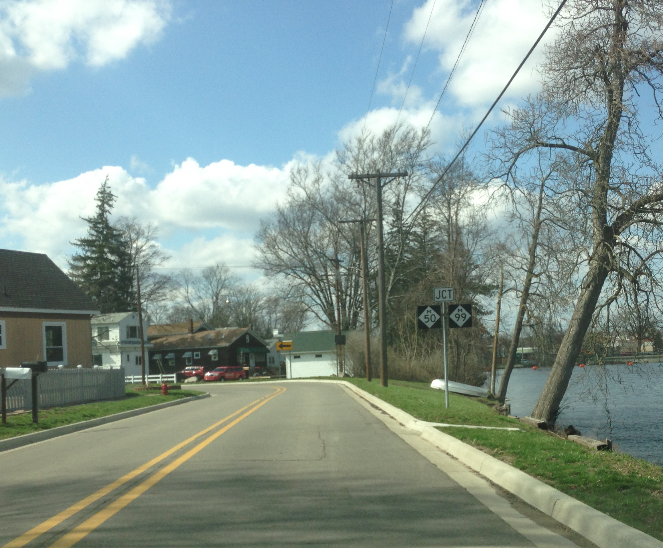 M-188 running along the Grand River near the highway's northern terminus in Eaton Rapids, Michigan